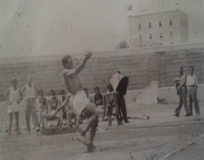 Hedhje cekici ne tirane